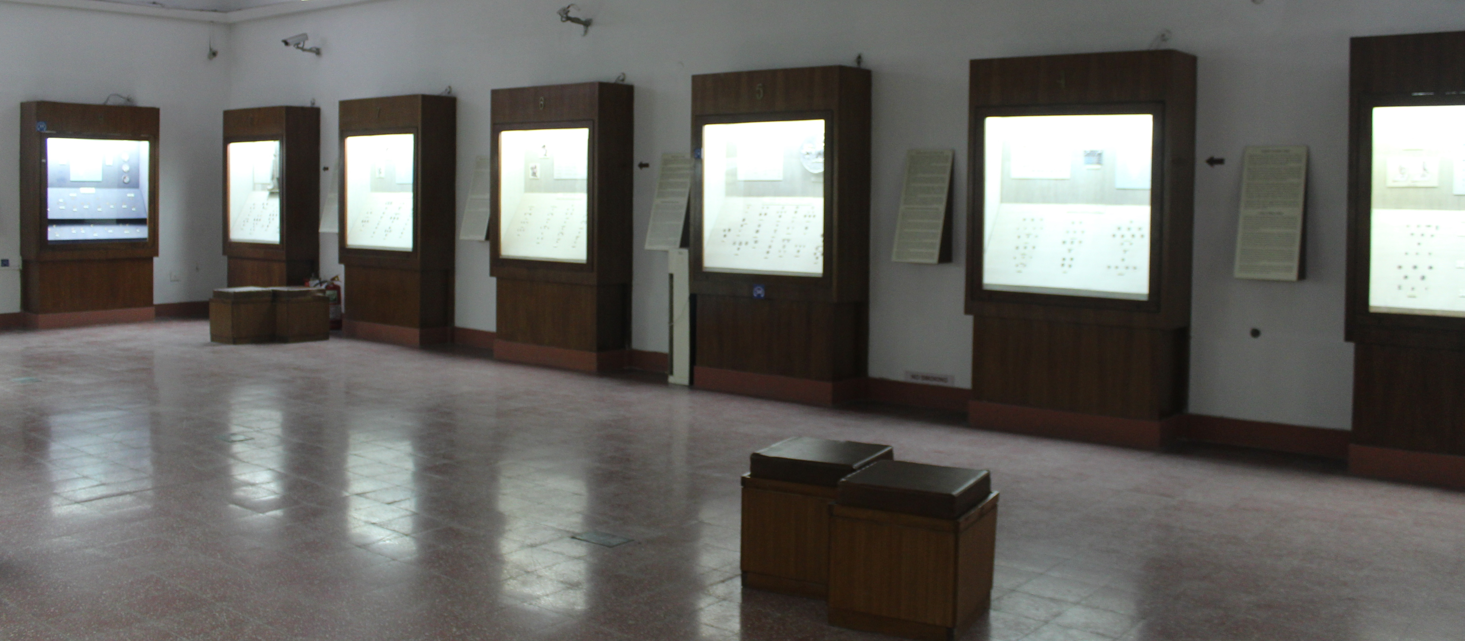 A view of the coins gallery